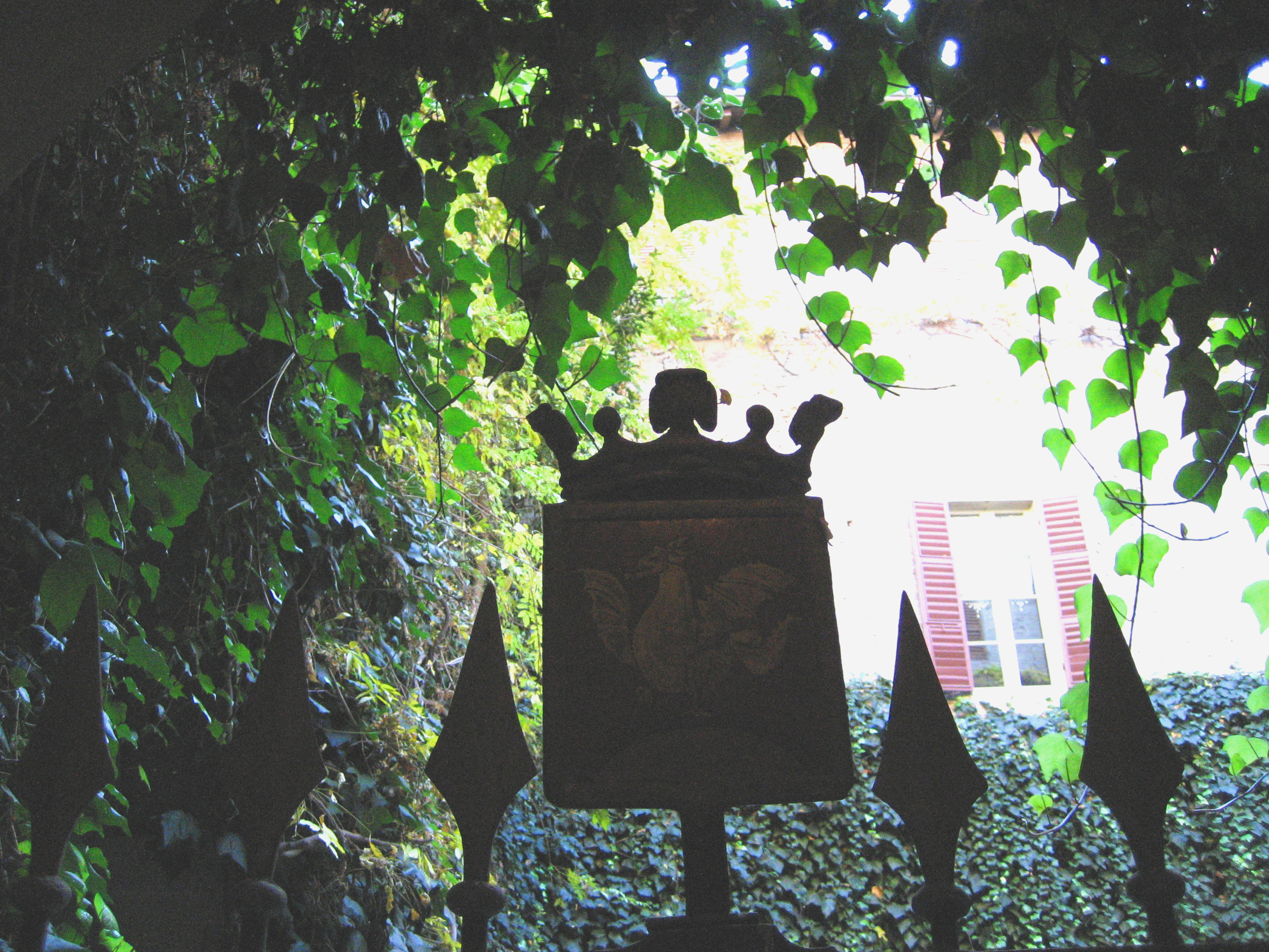 Cancello del cortile del Palazzo Tirelli in Parma